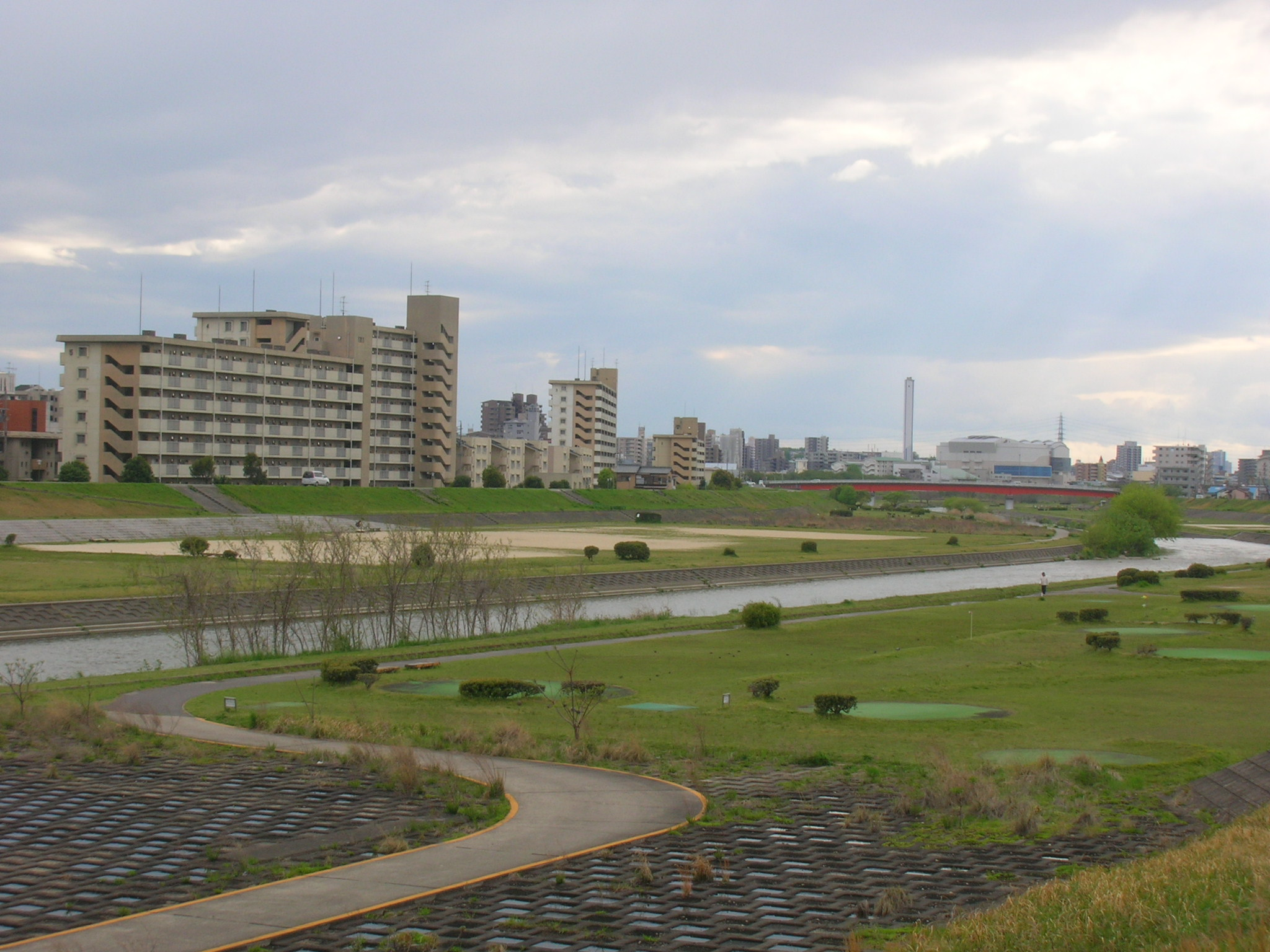 Yada river seen from the north of Yadagawa-Ohhashi